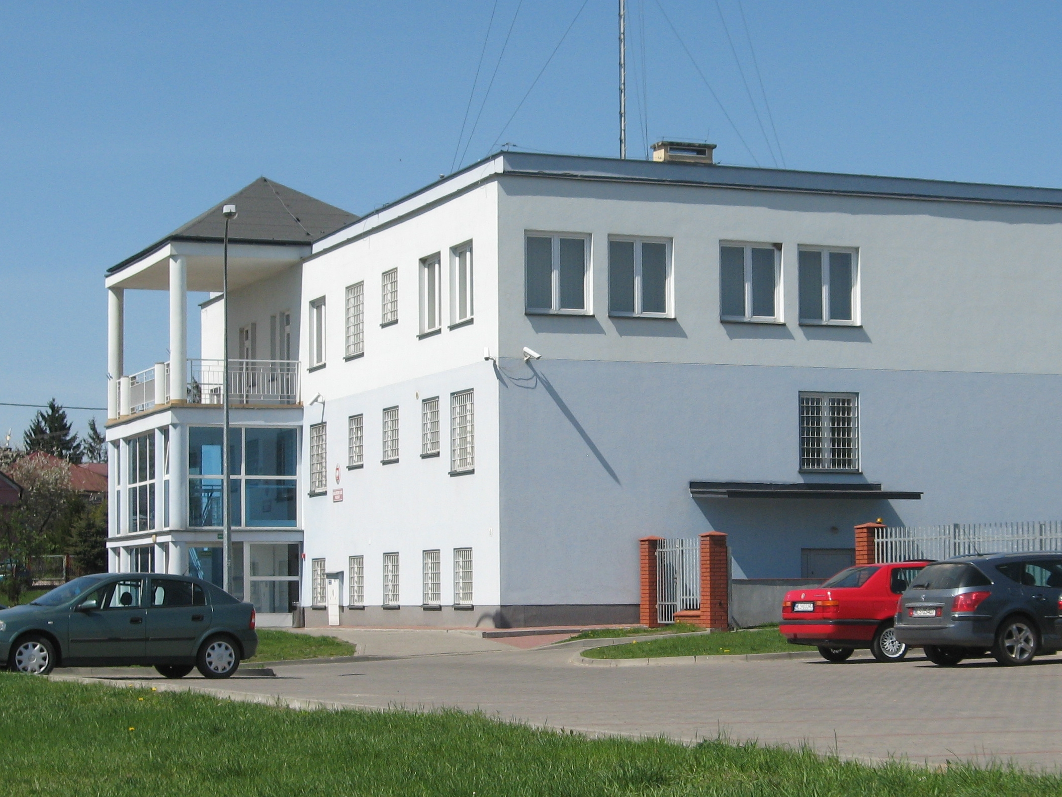 Police department in Łosice, Poland